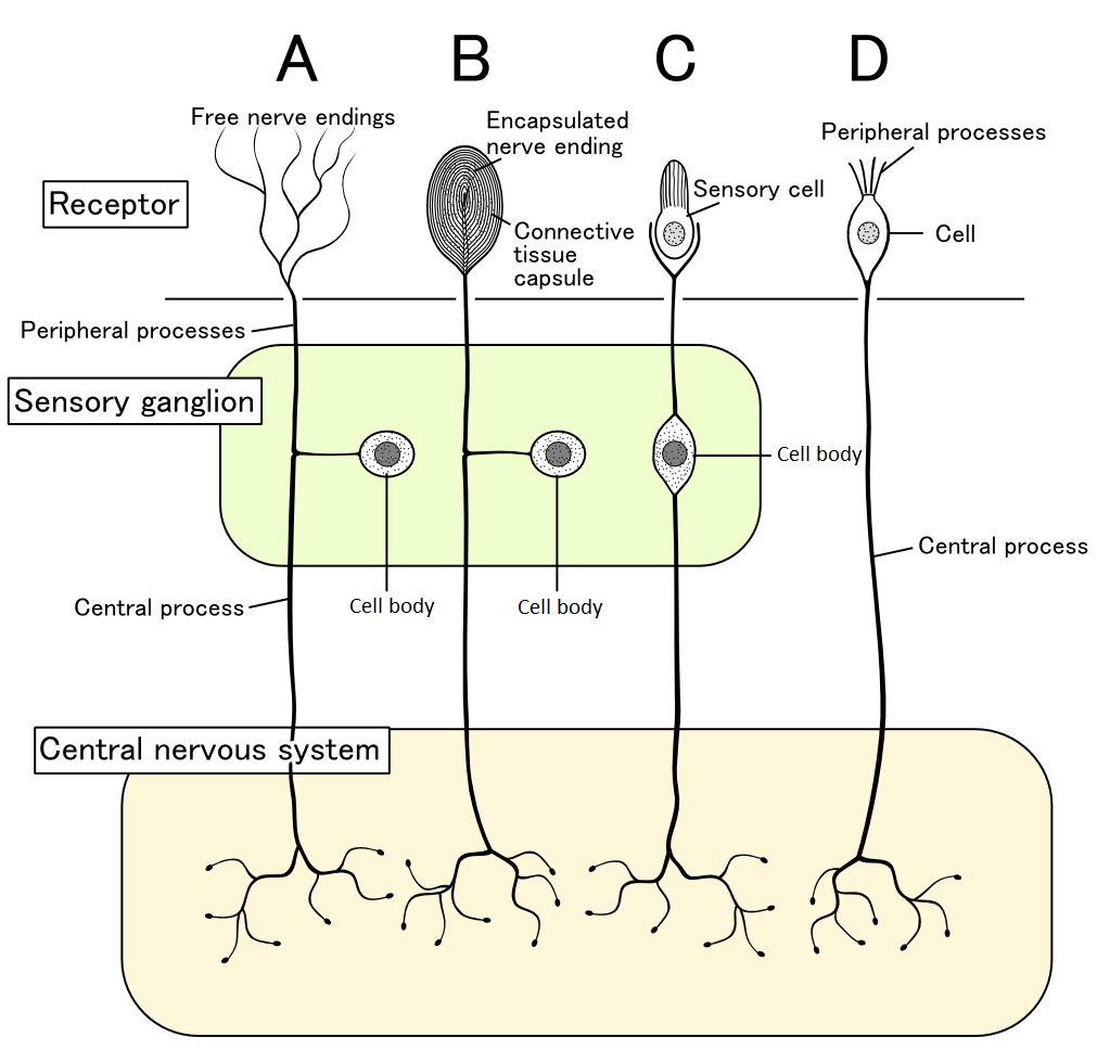 Structure of sensory system 4 models with English tags